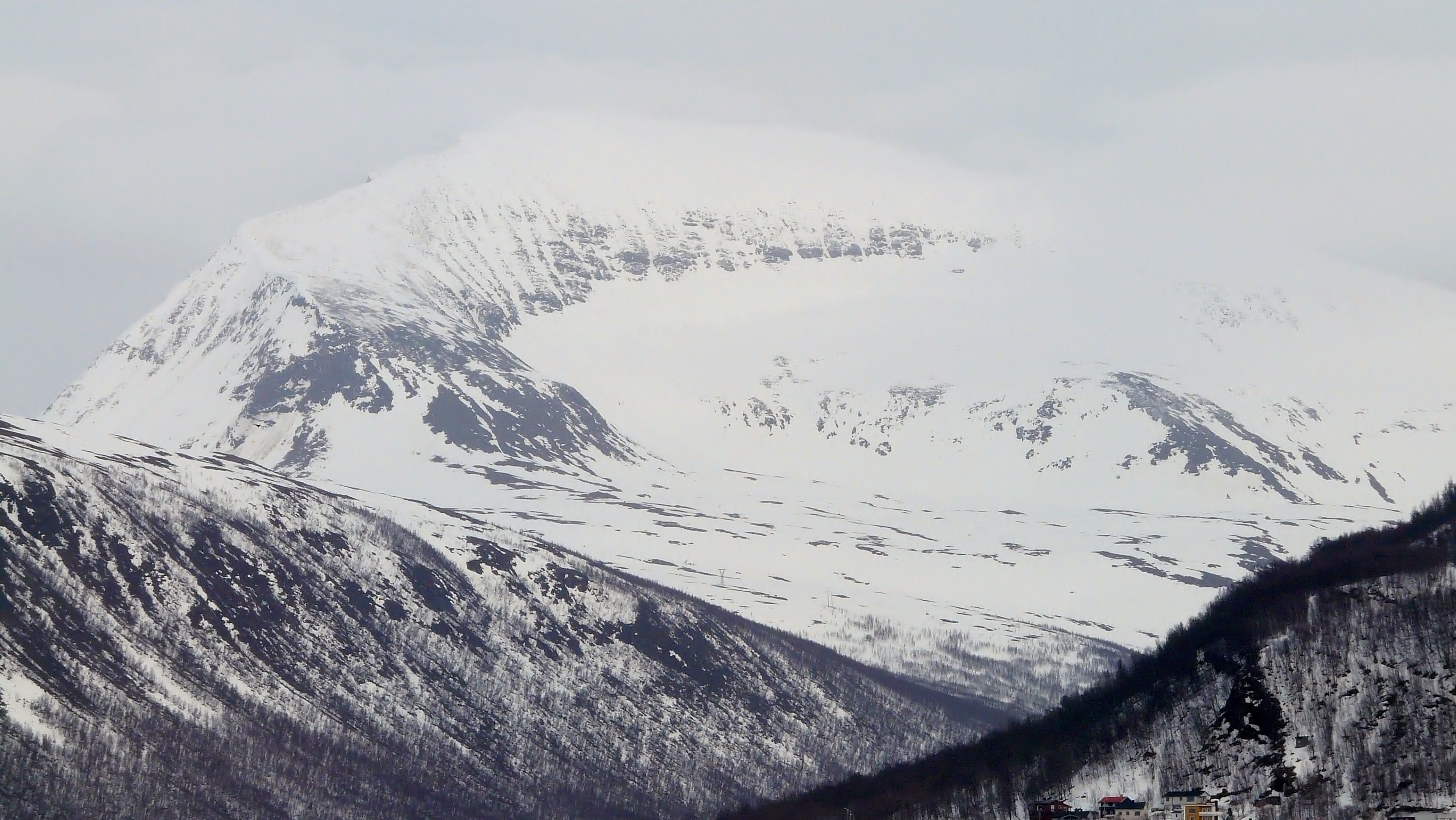 Tromsdalstinden (1,238 m) as seen from Tromsø in a cloudy day in 2009 May.